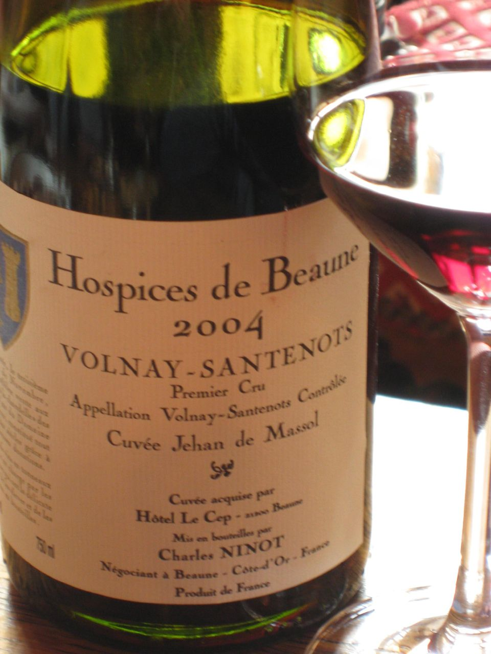 Premier Cru Pinot noir Burgundy wine from the Volnay-Santenots region